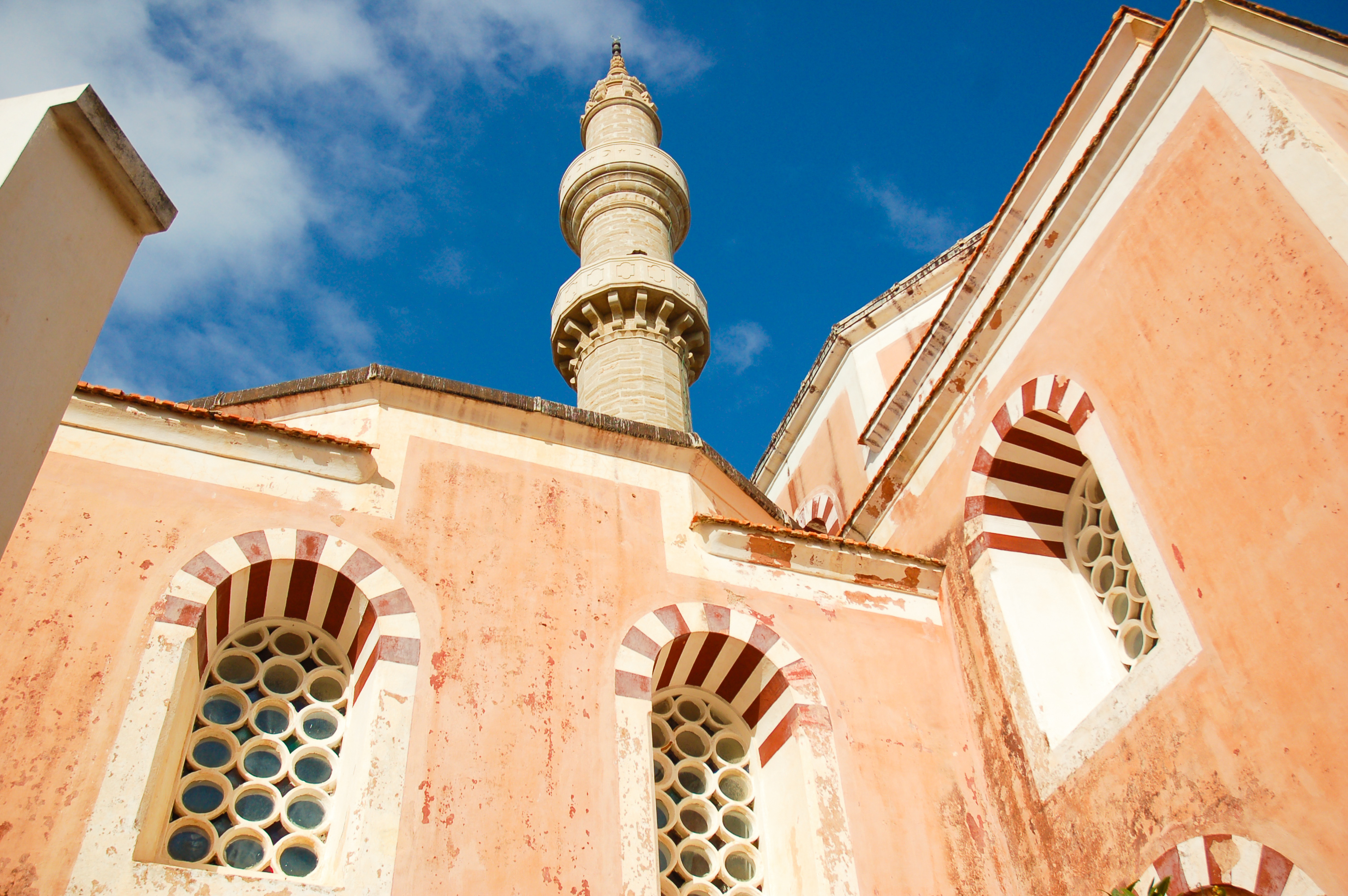 The Mosque of Suleiman (view from below). Rhodes cityscape, the island of Rhodes, the Dodecanese, Greece.